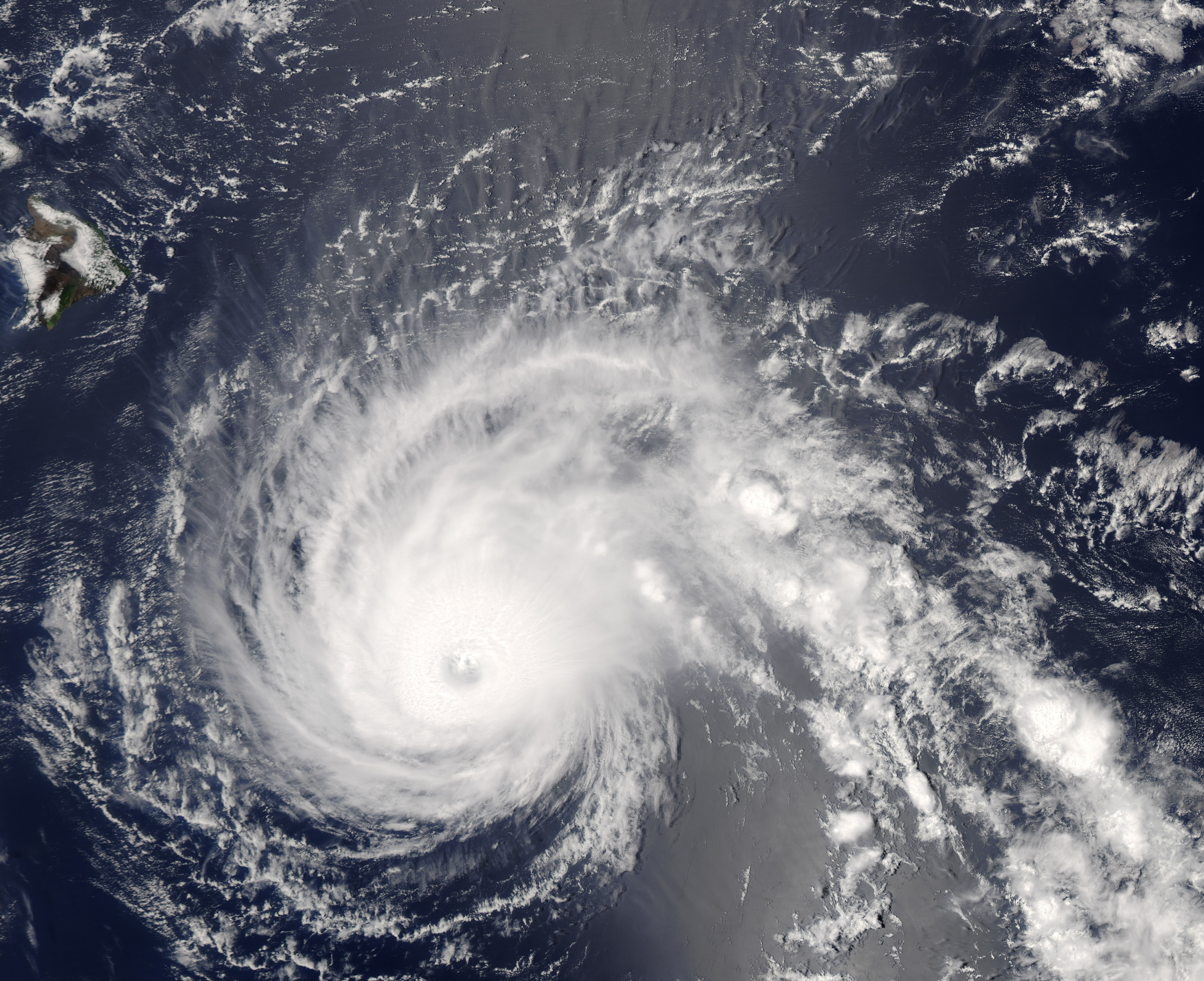 Hurricane Flossie built itself up into a powerful Category 4 hurricane as it traveled through the central Pacific Ocean in mid-August. By August 13, it had weakened to a Category 3 storm, and as of the morning of August 14, the hurricane was predicted to pass within 100 miles of the Hawaiian Islands, bringing strong winds and heavy rain, particularly to the southern end of the Big Island. A hurricane watch, tropical storm warning, and flash flood watch were issued for the islands, and schools on the Big Island were all closed for the day as a precaution, said news reports. At 1:10 p.m. local time (23:10 UTC) on August 13, 2007, when the Moderate Resolution Imaging Spectroradiometer (MODIS) on NASA’s Aqua satellite captured this image, Hurricane Flossie was a Category 3 hurricane. The hurricane had a large spiral shape and its central eye was well-defined, although filled with clouds (known as a “closed eye.”) These characteristics are typical for powerful cyclones. Sustained winds were measured at 195 kilometers per hour (120 miles per hour) at the time of this MODIS image, according to the University of Hawaii’s Tropical Storm Information Center. The high-resolution image provided above is at MODIS’ full spatial resolution (level of detail) of 250 meters per pixel. The MODIS Rapid Response System provides this image at additional resolutions.